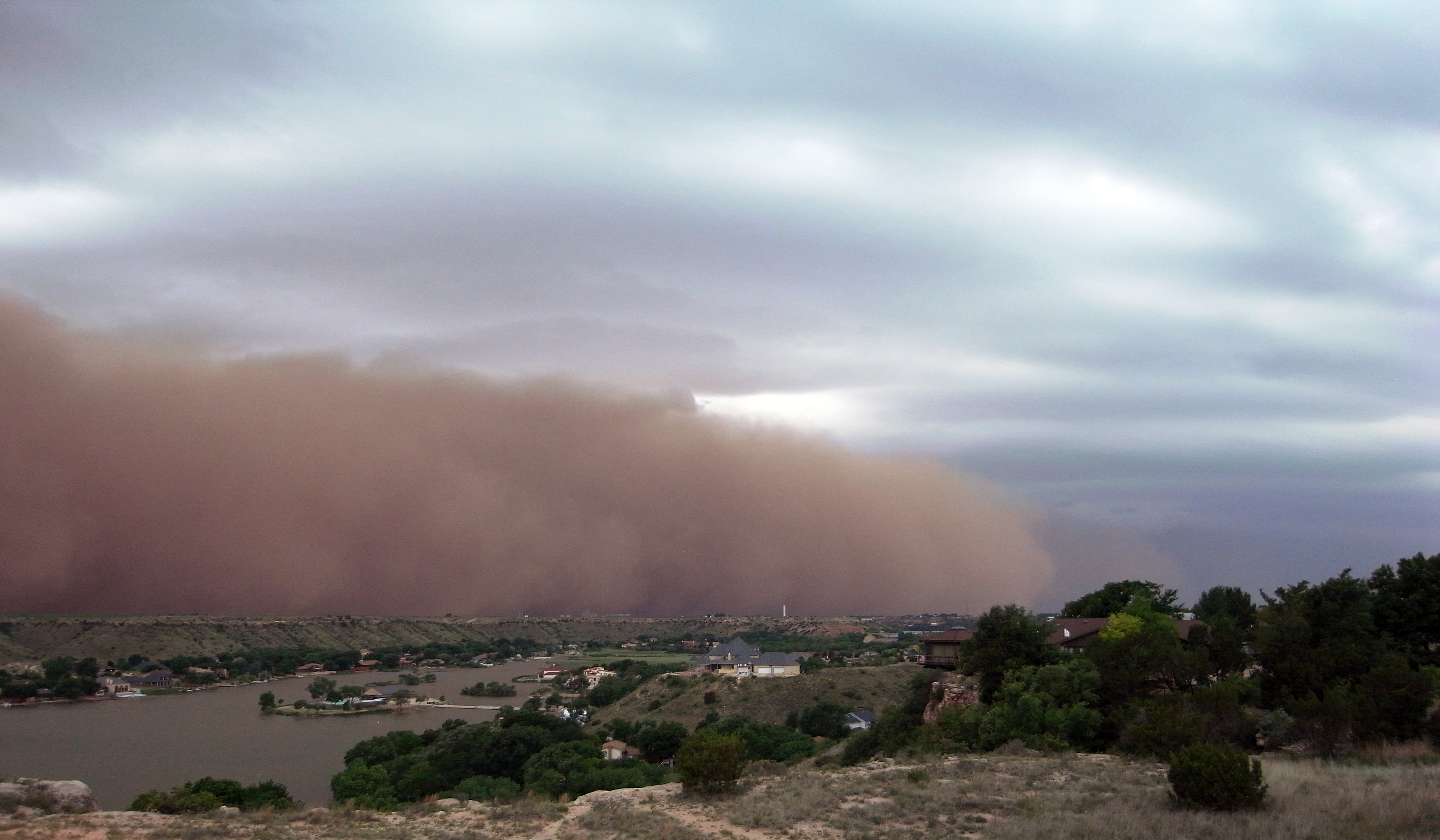 Gust-front dust cloud, called a Haboob, moving across the Llano Estacado toward Yellow House Canyon near the residential community of Ransom Canyon, Texas.